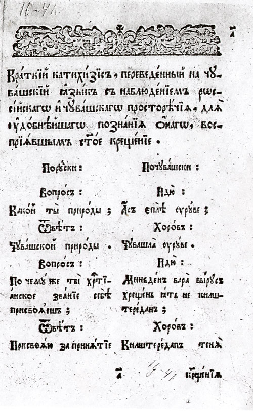 Page from first Chuvash language book (1800)